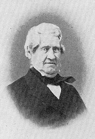 Erik Julin (1796–1874), Turku city chemist and businessman.